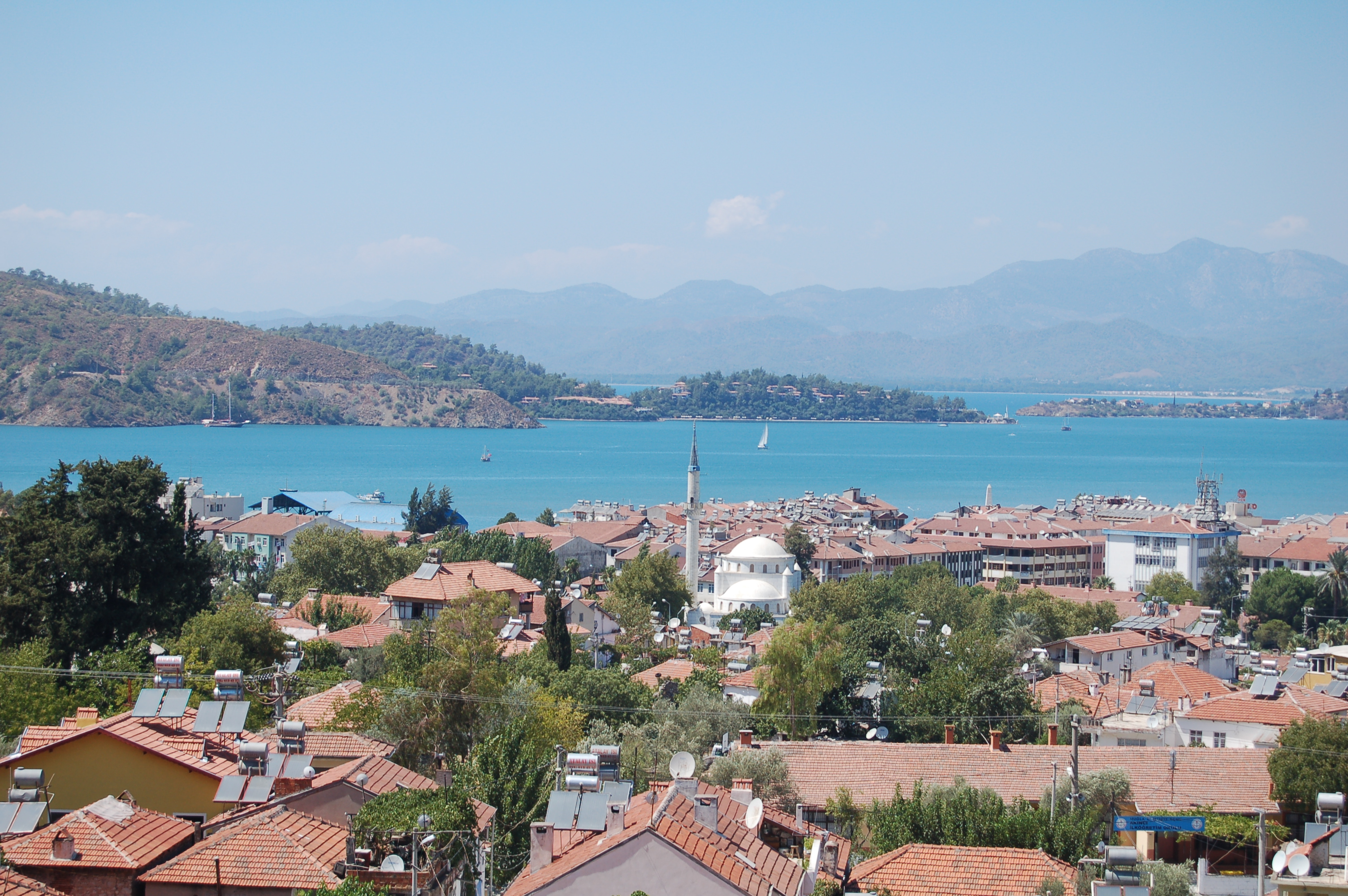 Fethiye,is a city and district of Muğla Province in the Mediterranean region of Turkey